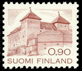 Postage stamp depicting the Häme Castle in the city of Hämeenlinna